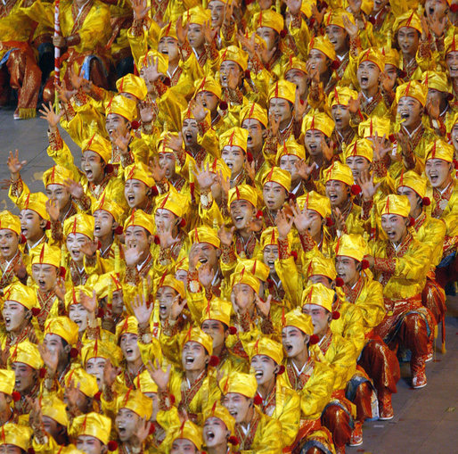 Actors perform during the Opening Ceremonies of the 2008 Summer Olympic Games Friday Aug. 8, 2008, at National Stadium in Beijing.